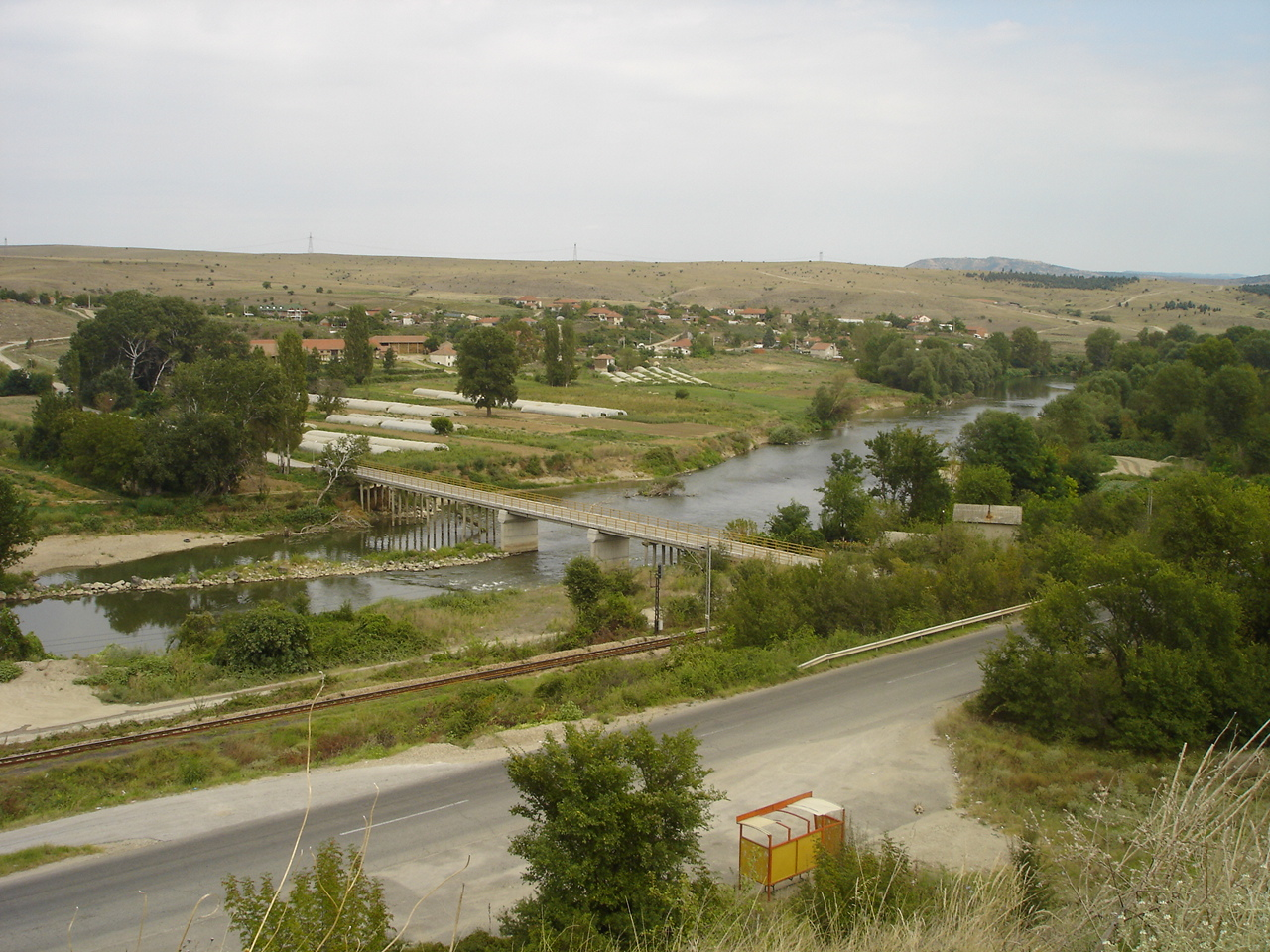 village of Nogaevci, Macedonia